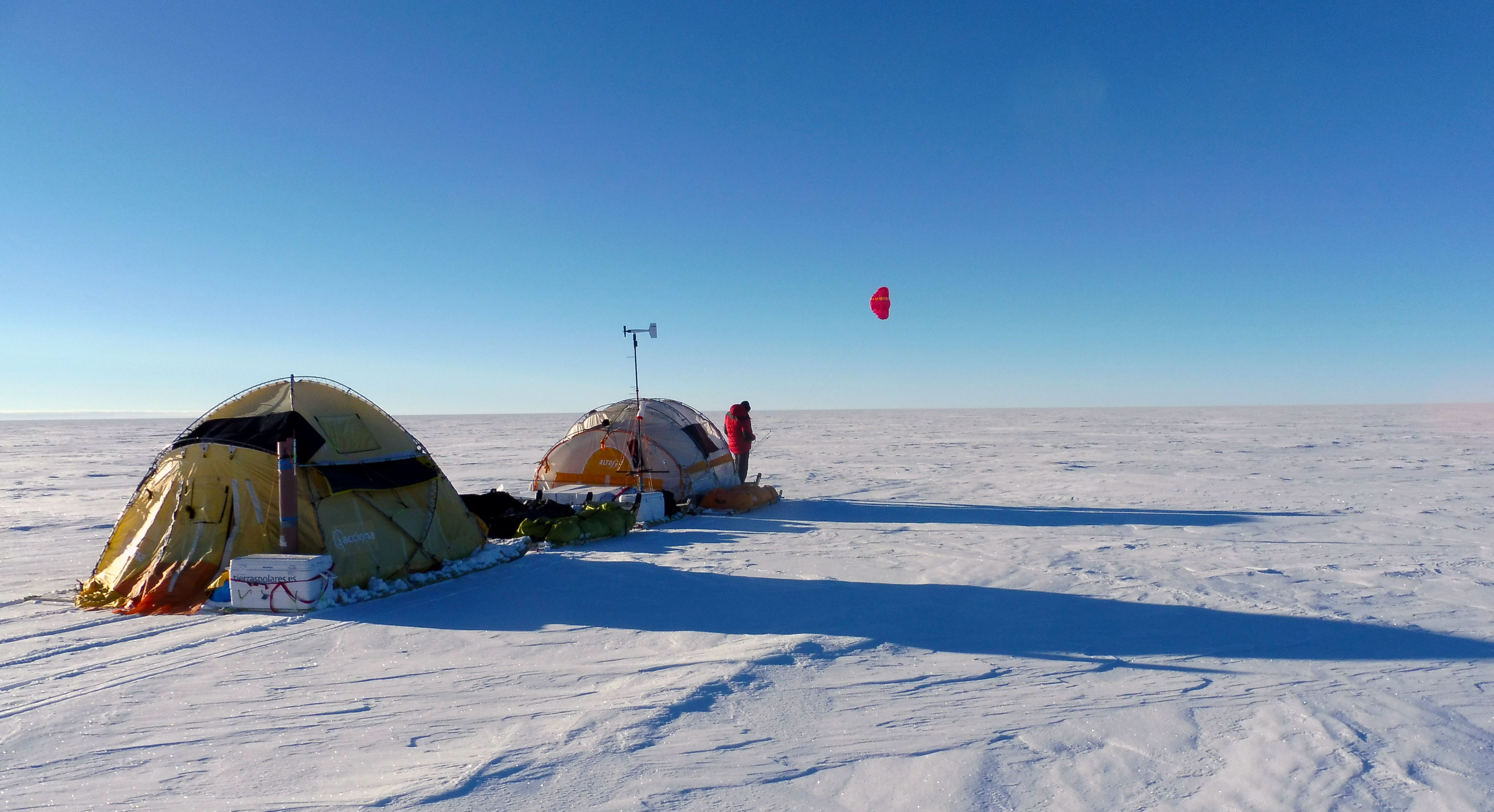 Eolic vehicle to polar science